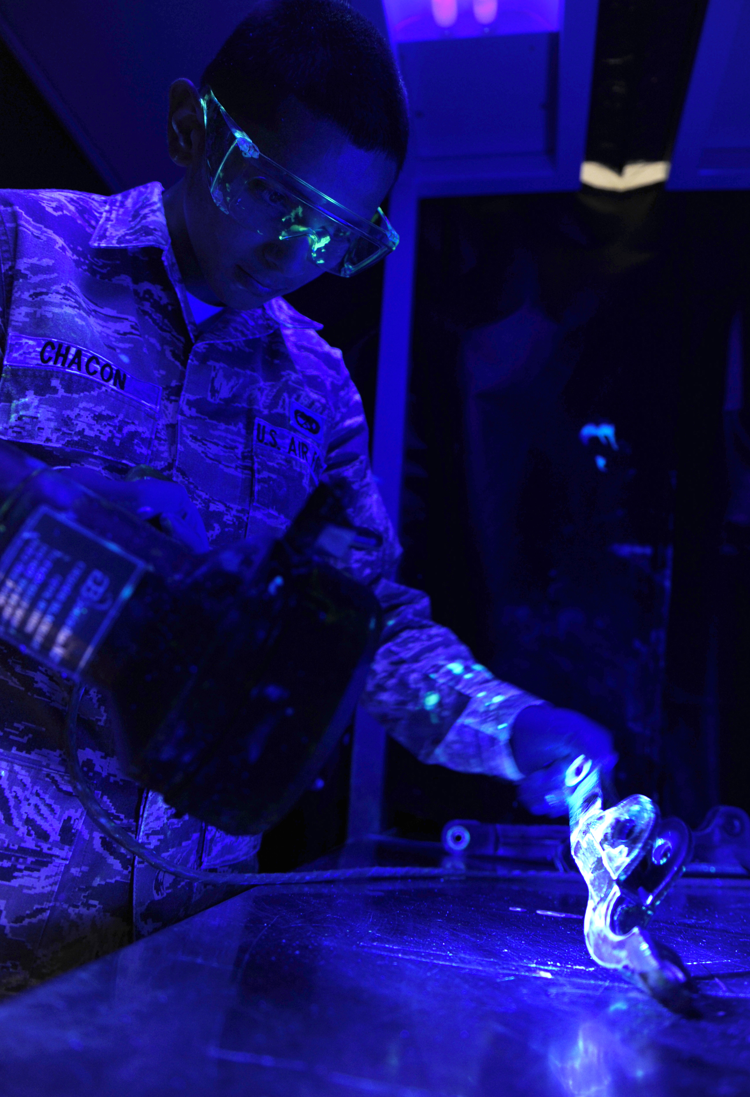 Holloman Air Force Base, NM: Airman Hector Chacon, 49th Maintenance Squadron non-destructive inspection specialist, performs a liquid penetrant inspection at the base NDI shop Feb. 11. A liquid penetrant inspection is performed to check the integrity of non-magnetic aircraft metal parts. The test is used on a case-by-case basis to determine whether or not the part will need to be replaced. (U.S. Air Force photo by Senior Airman Tiffany Trojca) (Released)